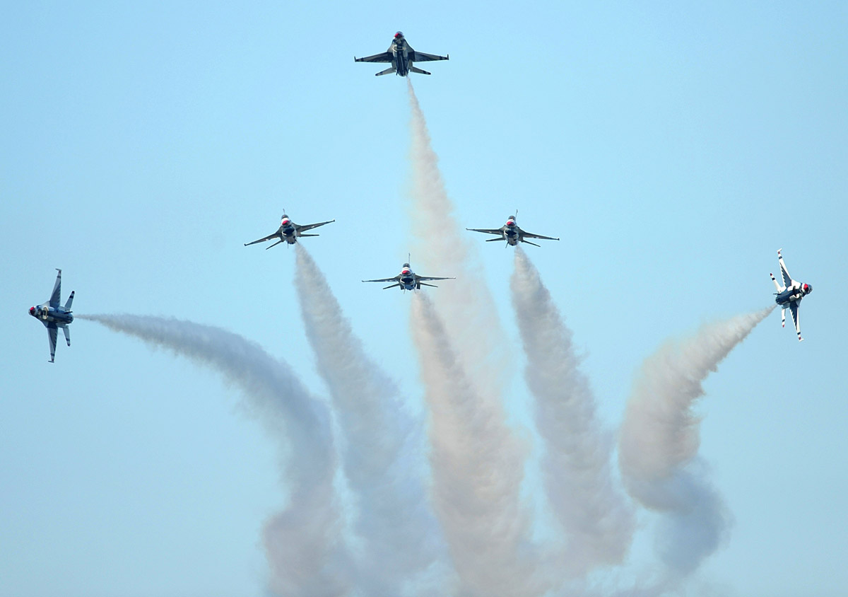 The U.S. Air Force Air Demonstration Squadron "Thunderbirds", perform the Delta Burst during the Gulf Coast Salute and Open House Air show at Tyndall Air Force Base, Fla. Mar. 26, 2011.